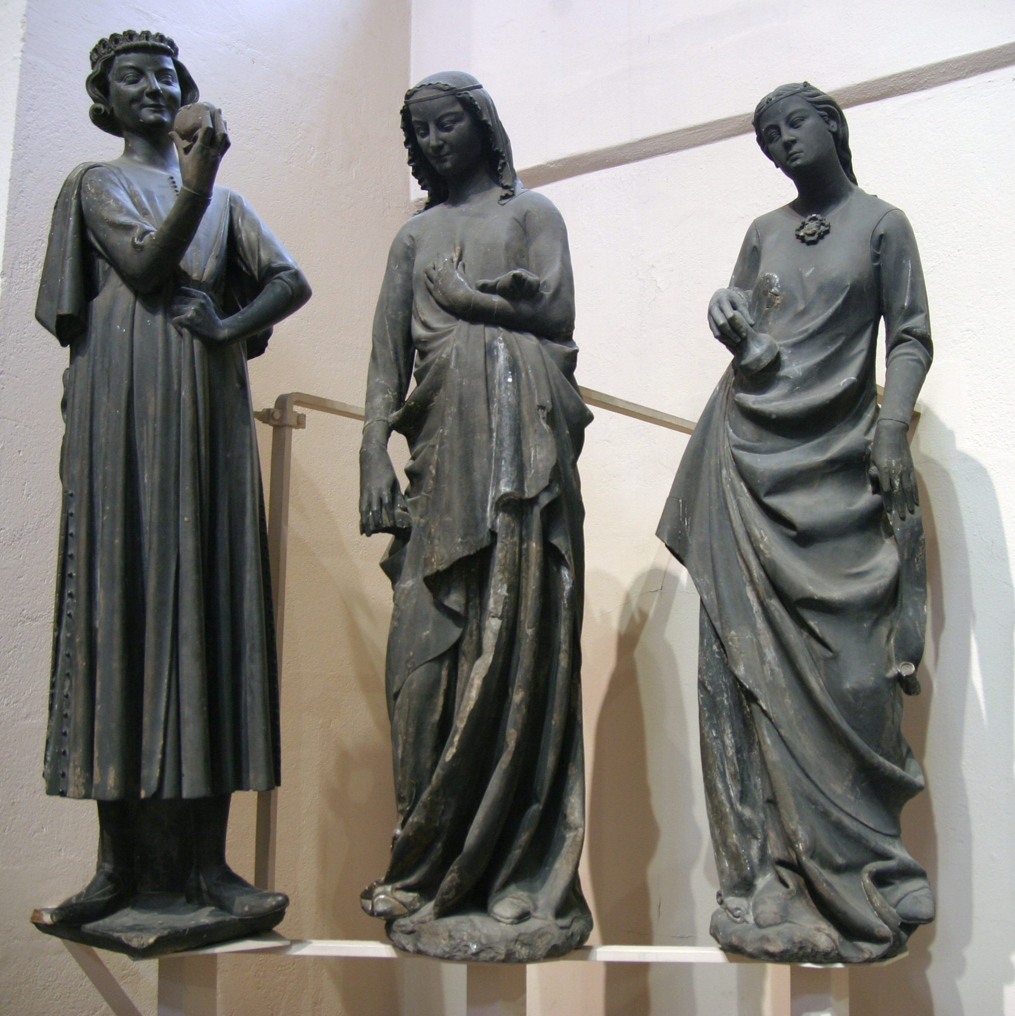 The Devil tempting the foolish virgins (Matthew 25:1-13) on the gate of Strasbourg Cathedral. He is represented as a handsome young man eating an apple, but his cloth is open and toads and snakes can be seen underneath it. See also Image:Musee-de-l-Oeuvre-Notre-Dame-Strasbourg-IMG 4016.jpg Image:Musee-de-l-Oeuvre-Notre-Dame-Strasbourg-IMG 4021.jpg Image:Musee-de-l-Oeuvre-Notre-Dame-Strasbourg-IMG 4020.jpg Image:Musee-de-l-Oeuvre-Notre-Dame-Strasbourg-IMG 4019.jpg Image:Musee-de-l-Oeuvre-Notre-Dame-Strasbourg-IMG 4017.jpg Image:Musee-de-l-Oeuvre-Notre-Dame-Strasbourg-IMG_4019-2.jpg Image:Cathedrale-de-Strasbourg-IMG 1197.jpg Image:Cathedrale-de-Strasbourg-IMG 1198.jpg Image:Cathedrale-de-Strasbourg-IMG 1199.jpg Image:Cathedrale-de-Strasbourg-IMG 1203.jpg Image:Cathedrale-de-Strasbourg-IMG 1204.jpg